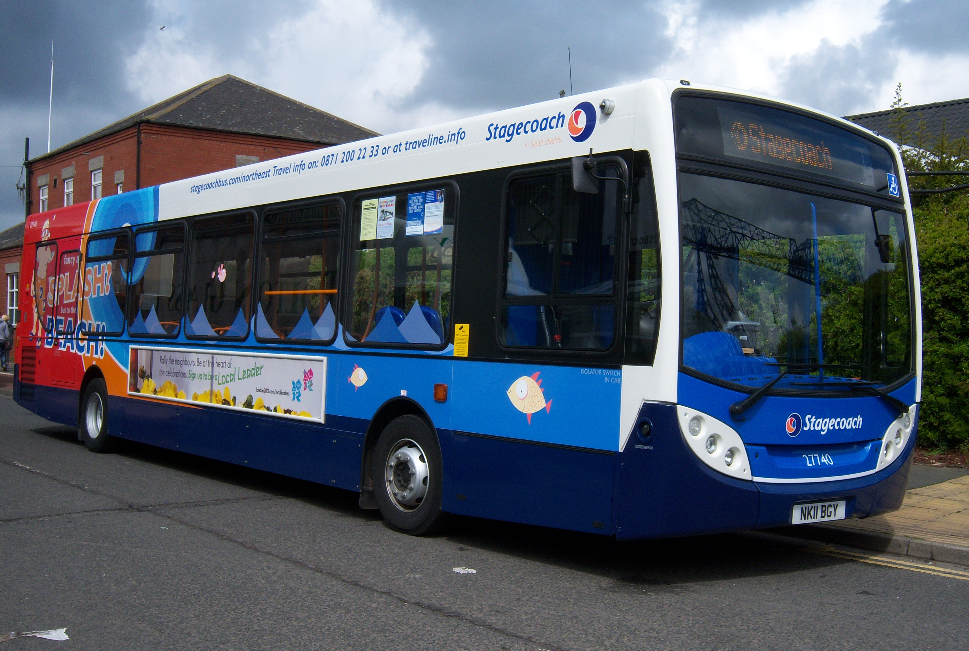 Stagecoach in South Shields bus 27740 (reg. NK11 BGY), a 2011 Alexander Dennis Enviro300 integral single-decker, pictured at the 2012 Teeside Running Day. It's parked on Vulcan Street facing east (see the rally categories for further operational/location details). It's branded with 'Fancy a Splash/Bus to the Beach' slogans and graphics to showcase the fact the routes it's normally used on, the E1/2/6 group, follow the coast between South Shields and Sunderland.